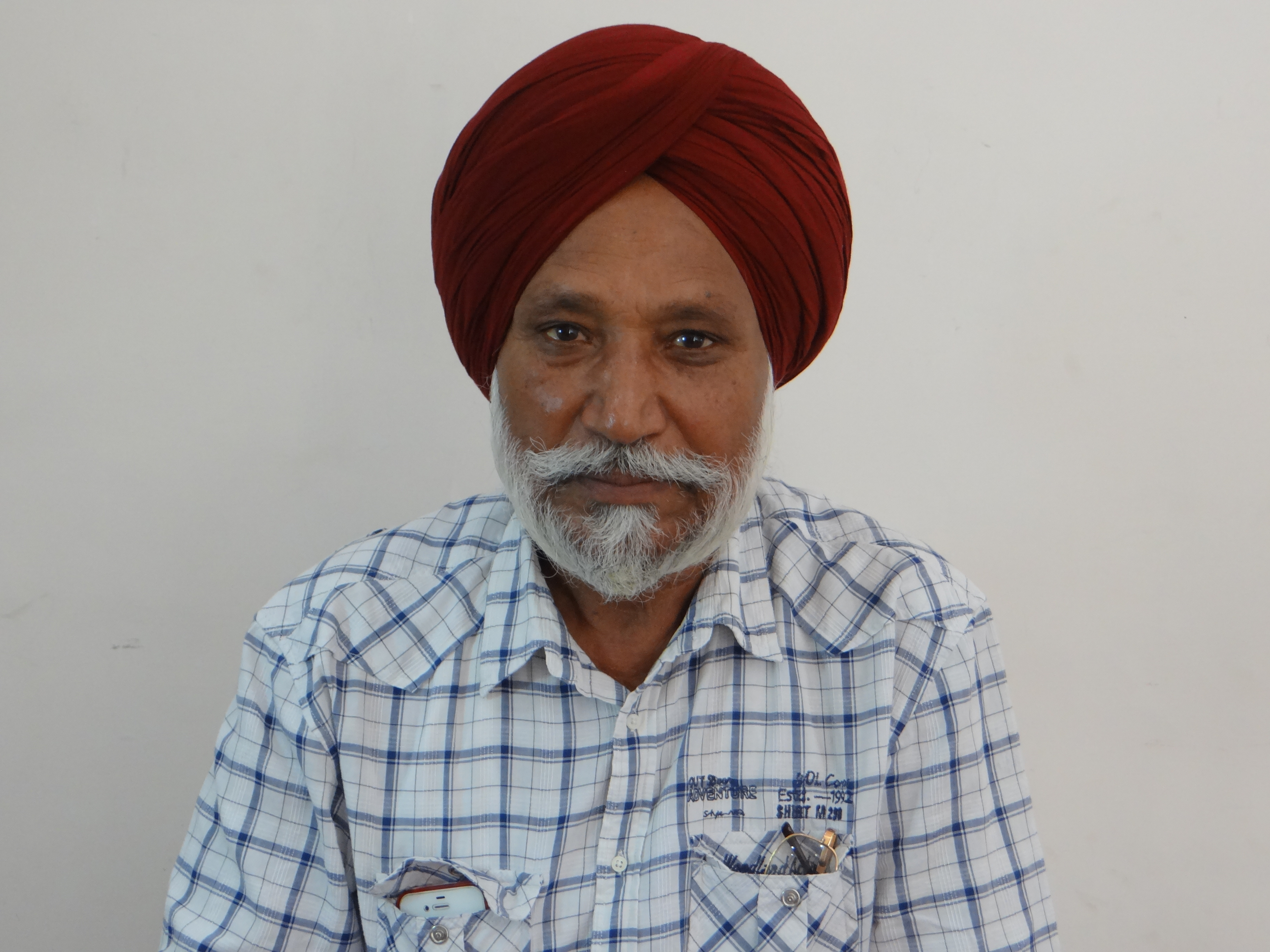 khanikar novalkar